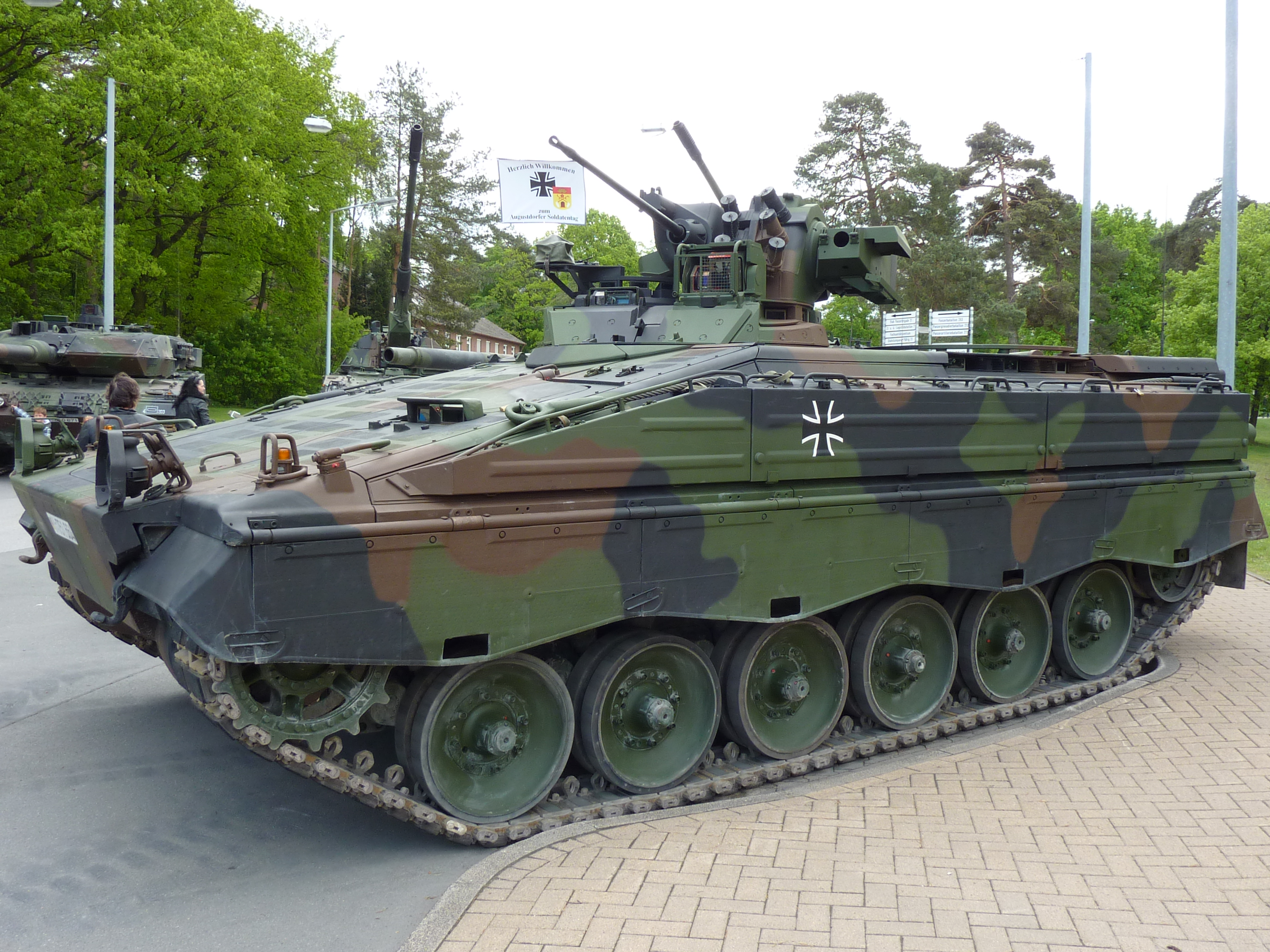 IFV Marder of the german Army